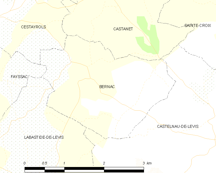 Map of French municipality Bernac